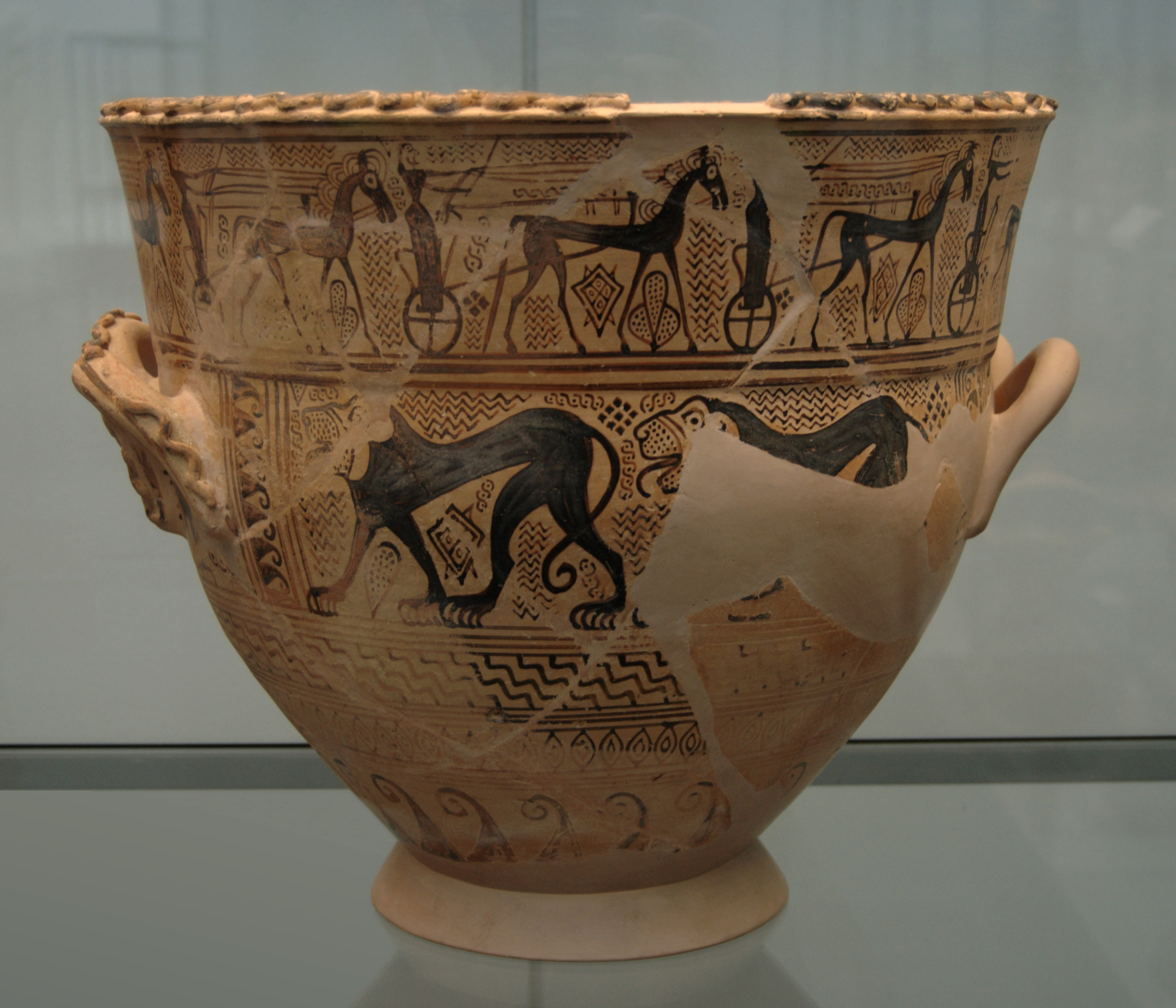 Proto-attic “krater”. Snakes' ornamentations are typical of funerary vases.